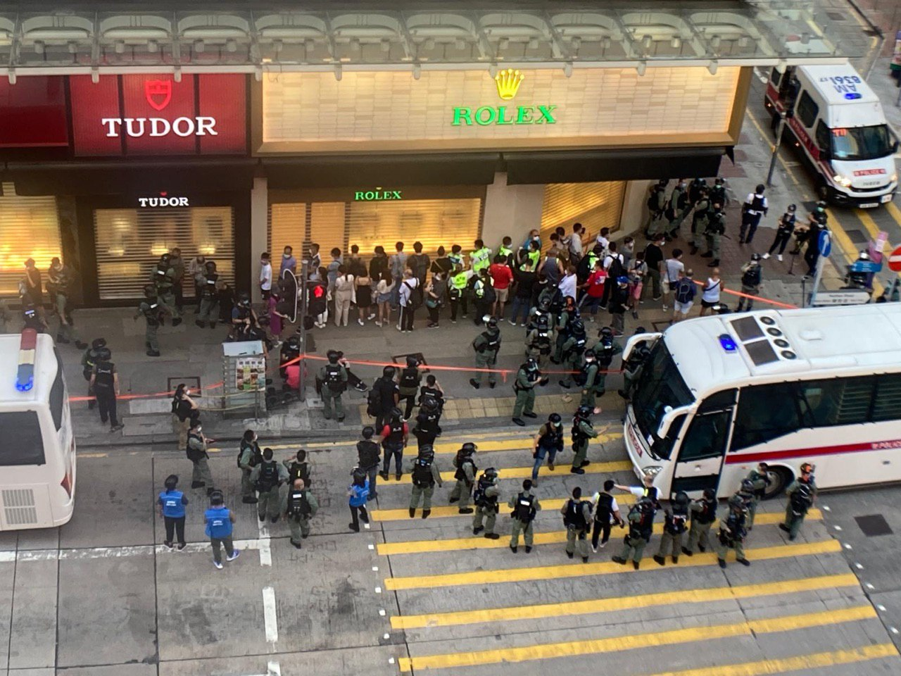 Many people arrested in Nathan Road